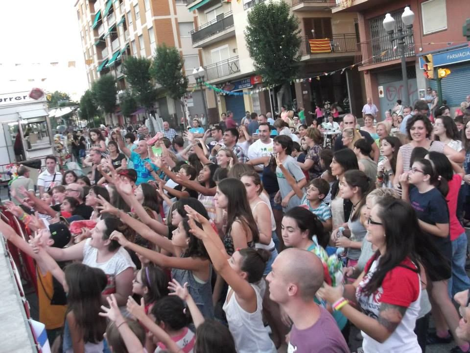 Festes a l'Avinguda Andorra que va ser el primer cap de setmana de setembre